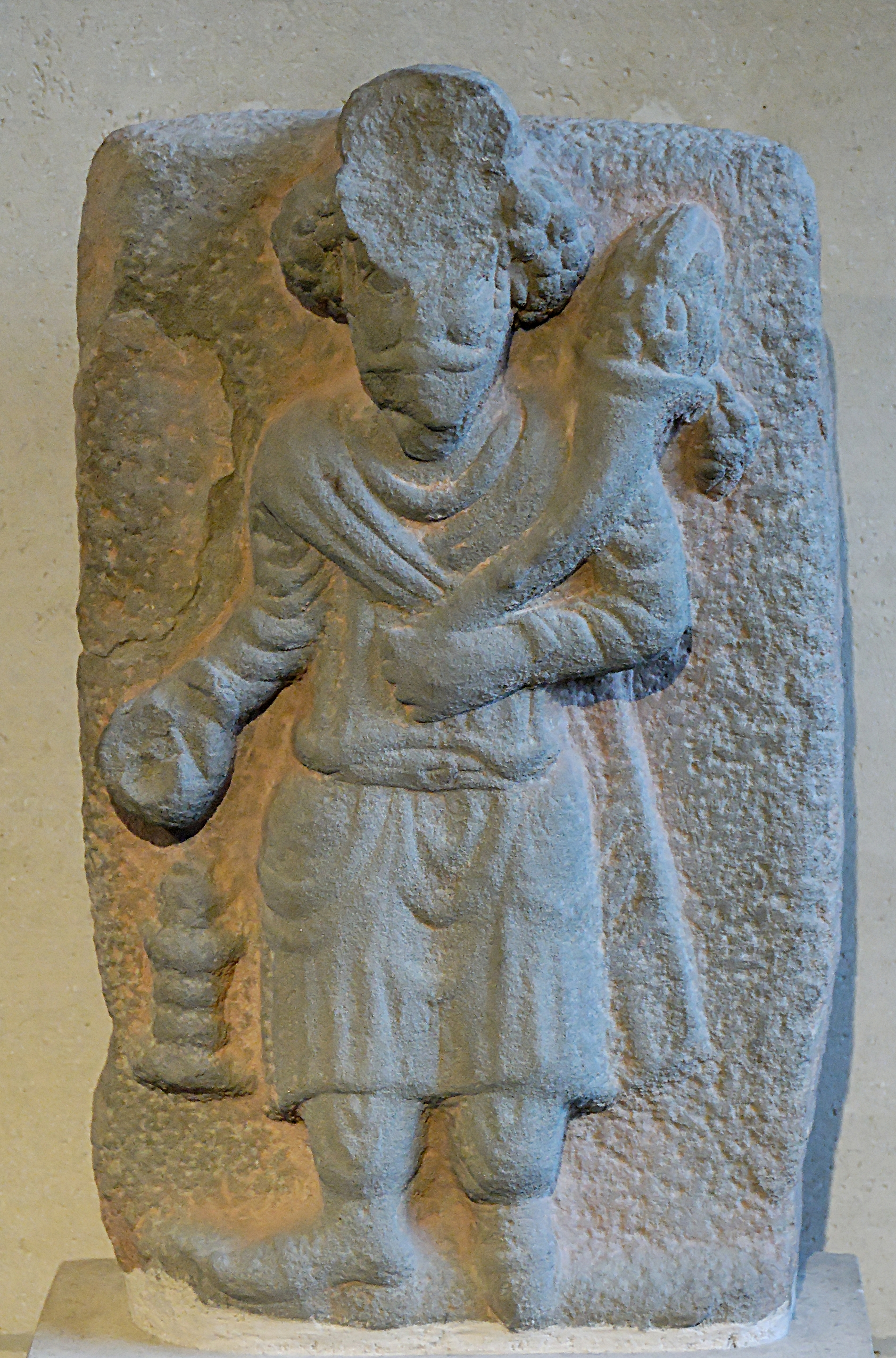 Parthian King holding a cornucopia and offering a sacrifice on a fire-altar. Stone relief, 2nd–3rd centuries AD. Found in the temple of Herakles at Masjid-i Suleiman.